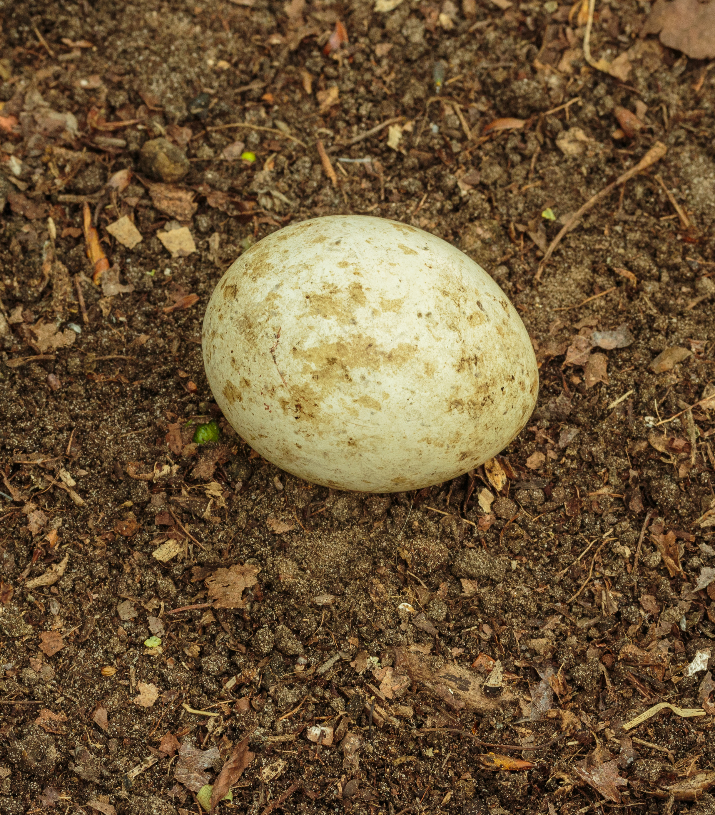 Infertile egg of a Buzzard (Buteo buteo).